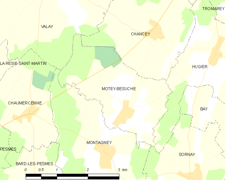 Map of French municipality